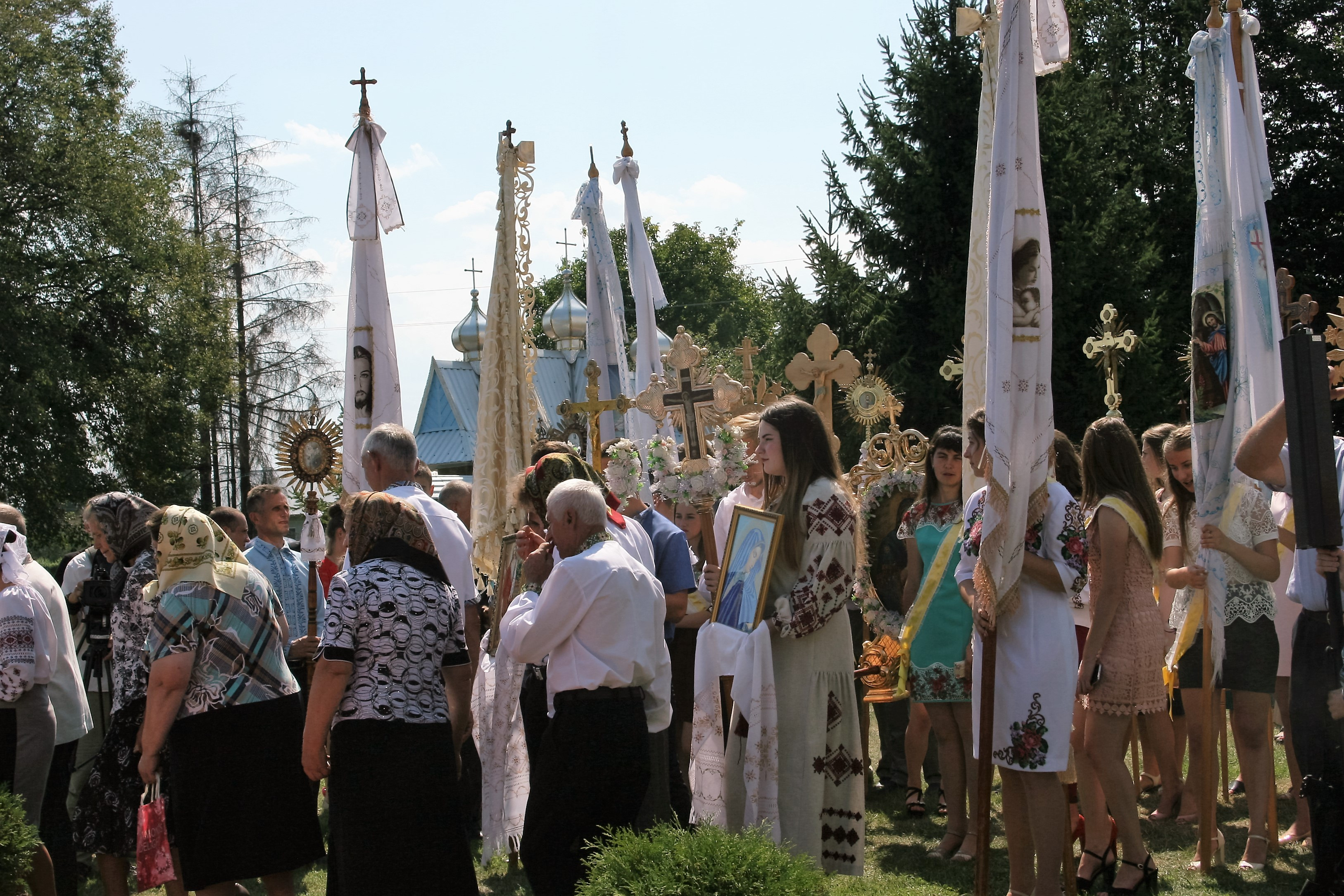 Feast of Transfiguration known as Spas Feast Day in Spas village, Ukraine.